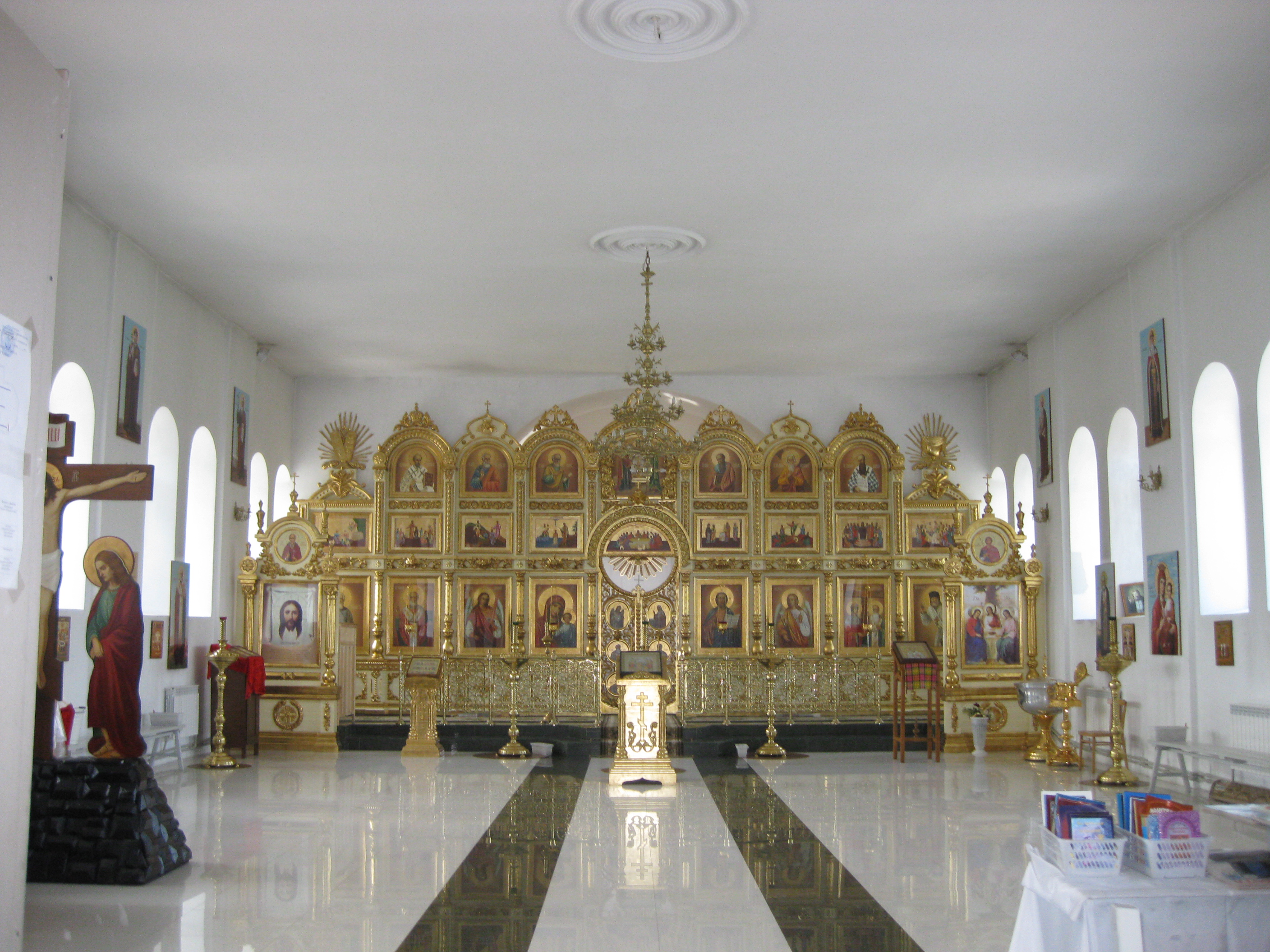 Maloye Kozino, interior view of the Church of the Exaltation of the Cross (1905).